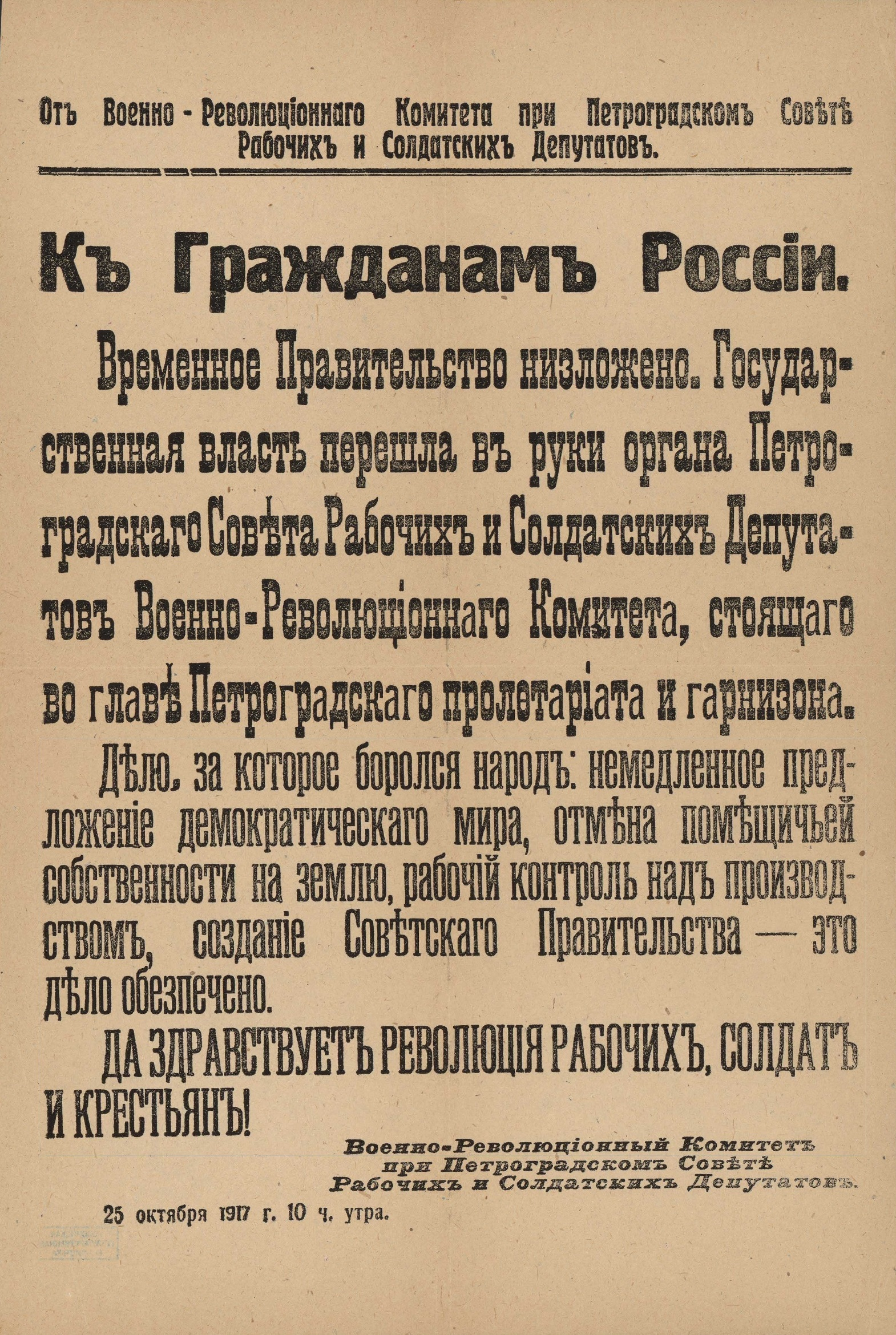 Soviet proclamation about the disbanding of the Russian Provisional Government issued by Petrograd Military Revolutionary Committee